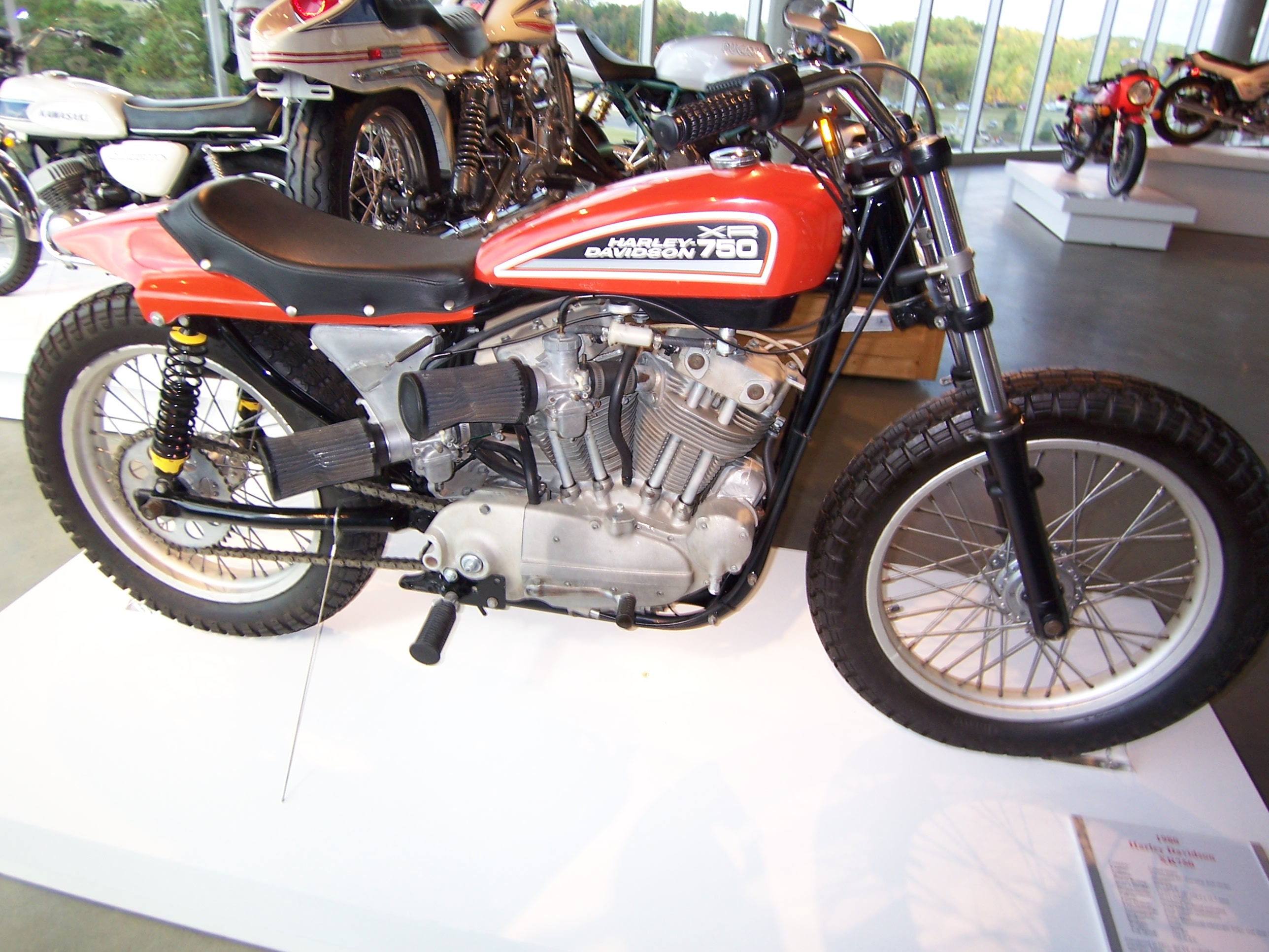 Barber Motorcycle Museum - Oct 22 2006 (641) 1980 Harley-Davidson XR750